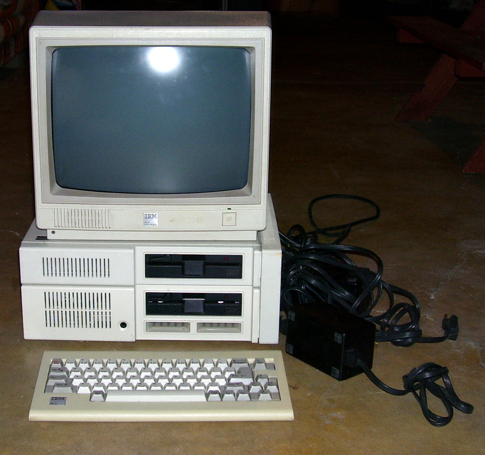 IBM PCjr; two ROM cartridge slots are below the floppy drives. Author: texnofobix URL